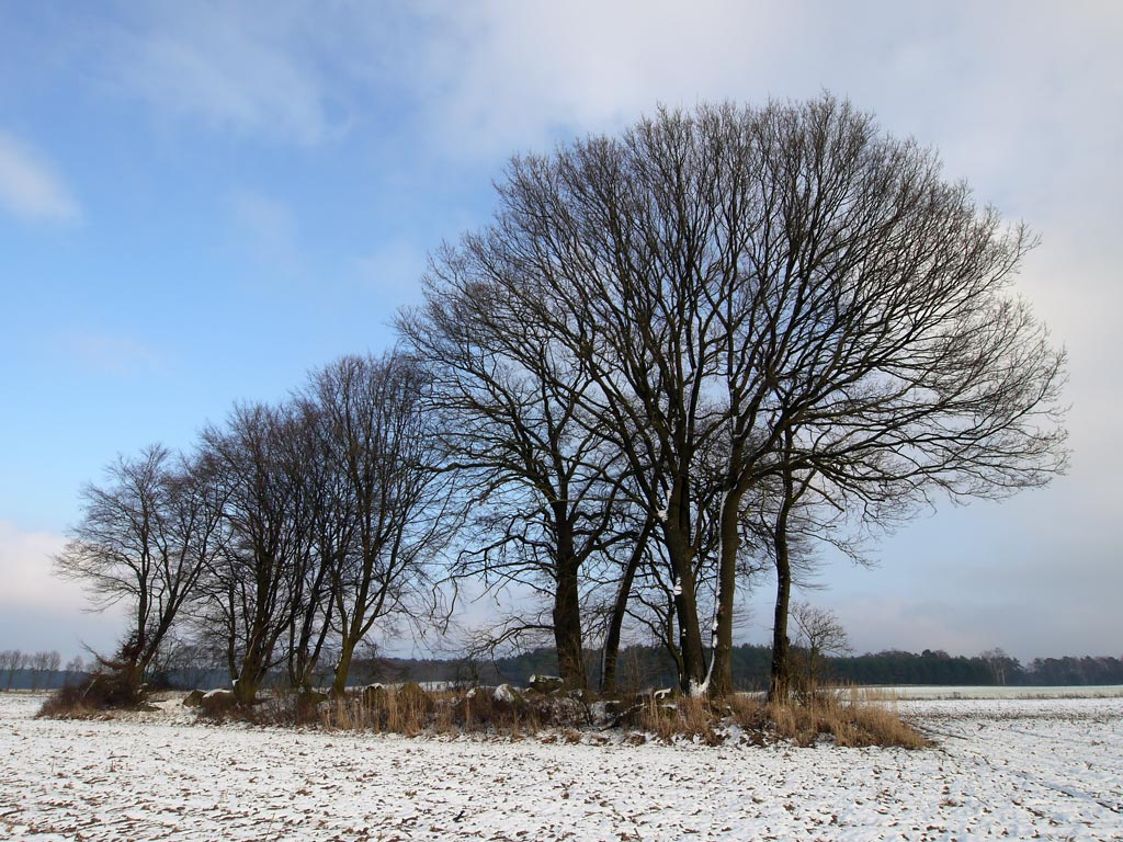 Hünenbett bei Boitze